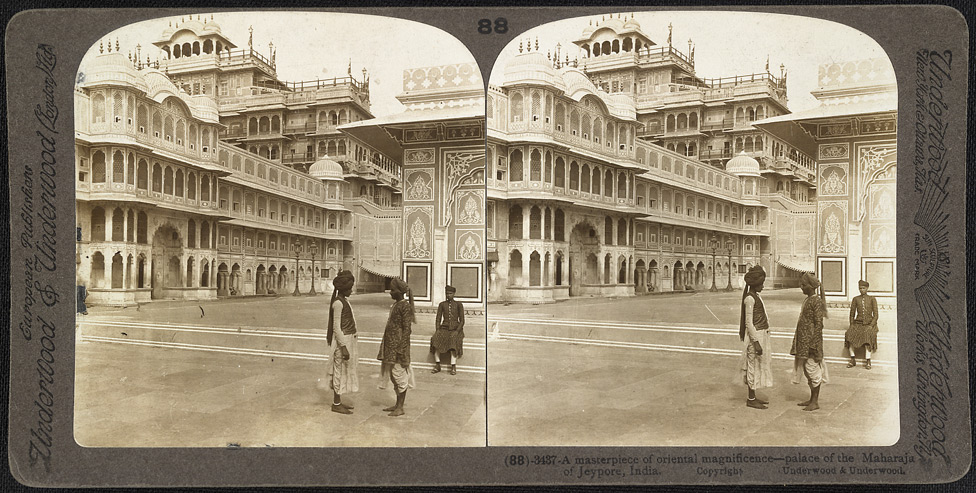 A masterpiece of oriental magnificence - palace of the Maharaja of Jeypore, India